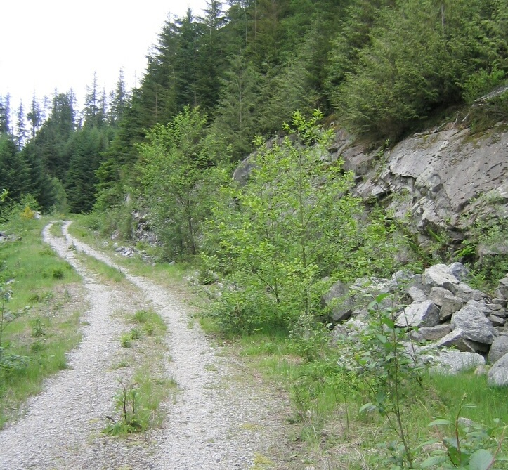 A decommissioned logging road in steep terrain. Photo taken in Seymour Conservation Reserve near Vancouver, BC.